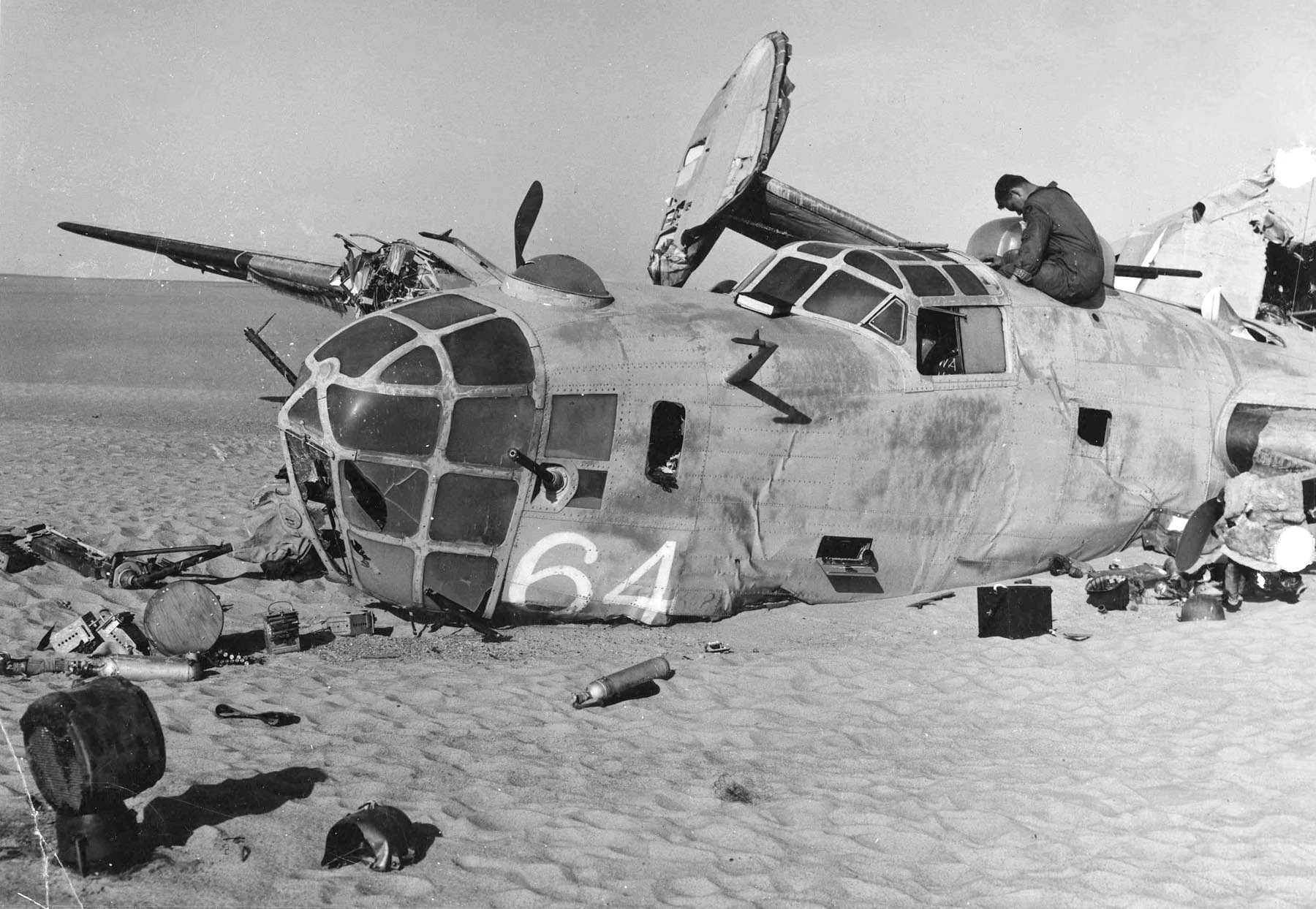 Nose view of Consolidated B-24D Lady Be Good crash site. The plane made a surprisingly good pilotless belly landing and skidded 700 yards before breaking in half and stopping. (U.S. Air Force photo)